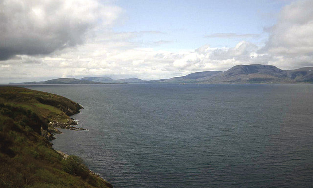 Bantry Bay near Foilakilly Looking west across the bay to the Beara Peninsula. On the opposite side is the green Bere Island on the left, the channel to Castletownbere in the centre and Hungry Hill on the right.